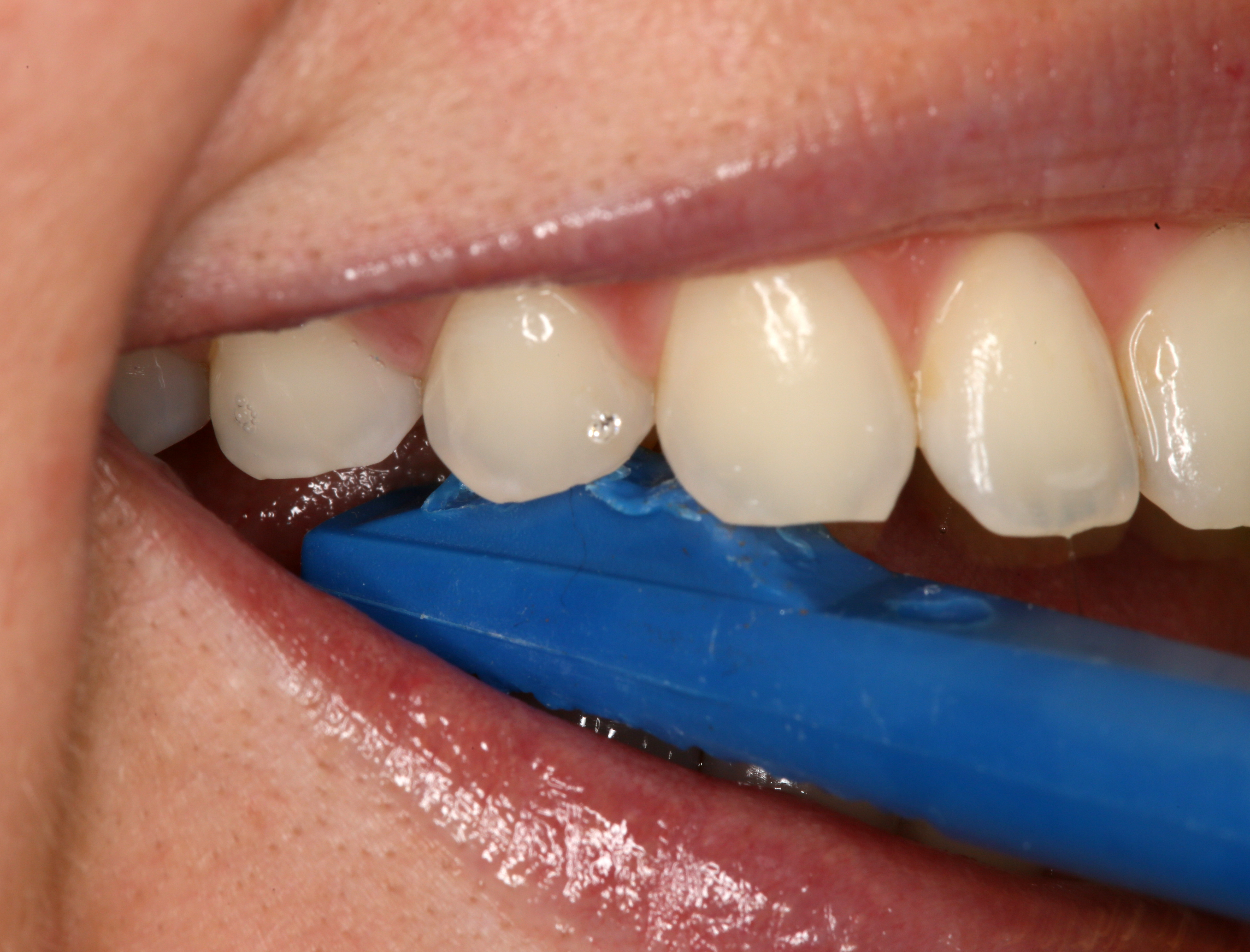 Biting on a plastic wedge to cause pain when a tooth is cracked